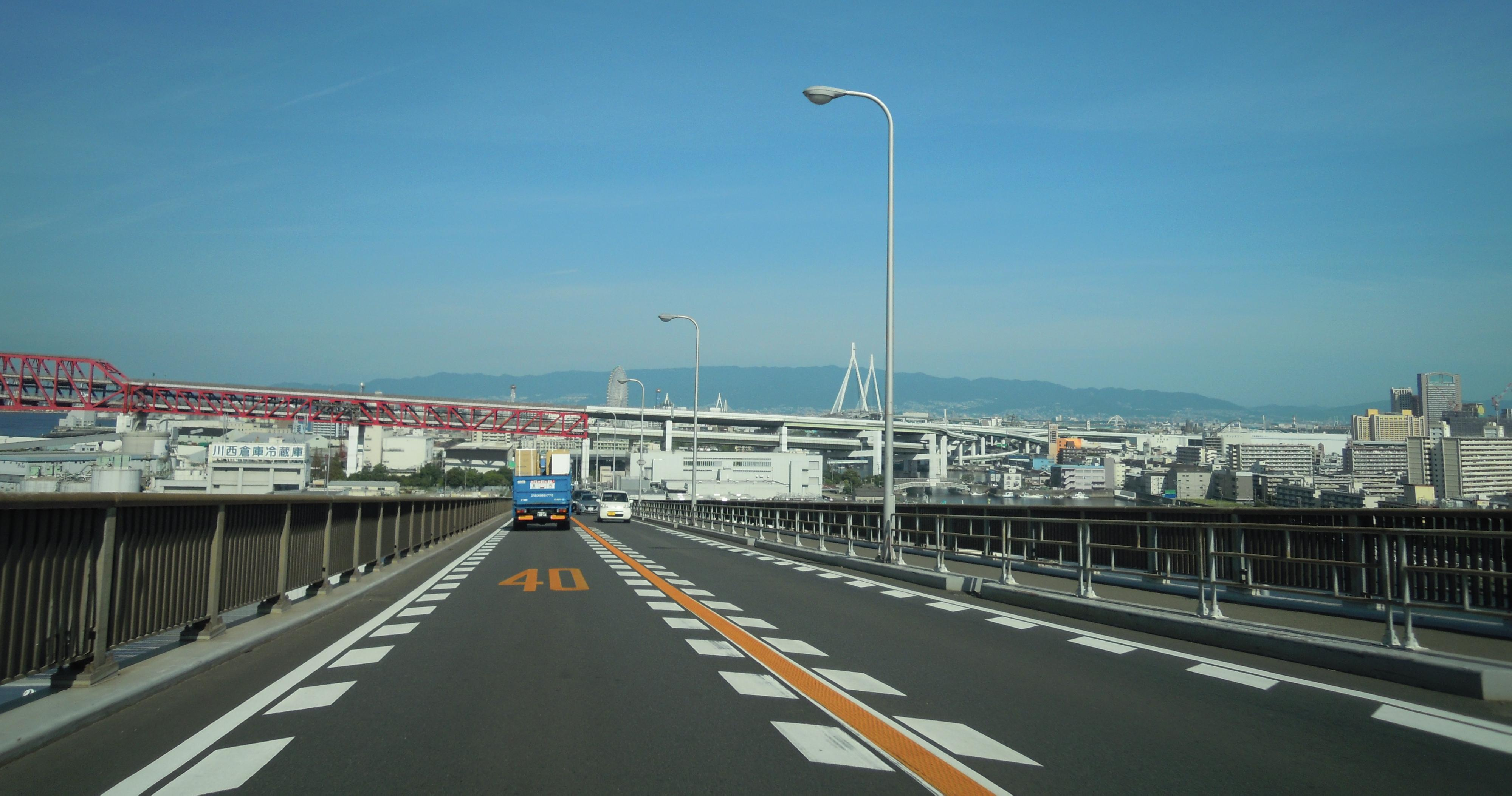 This image is Namihaya Bridge in Osaka Japan.